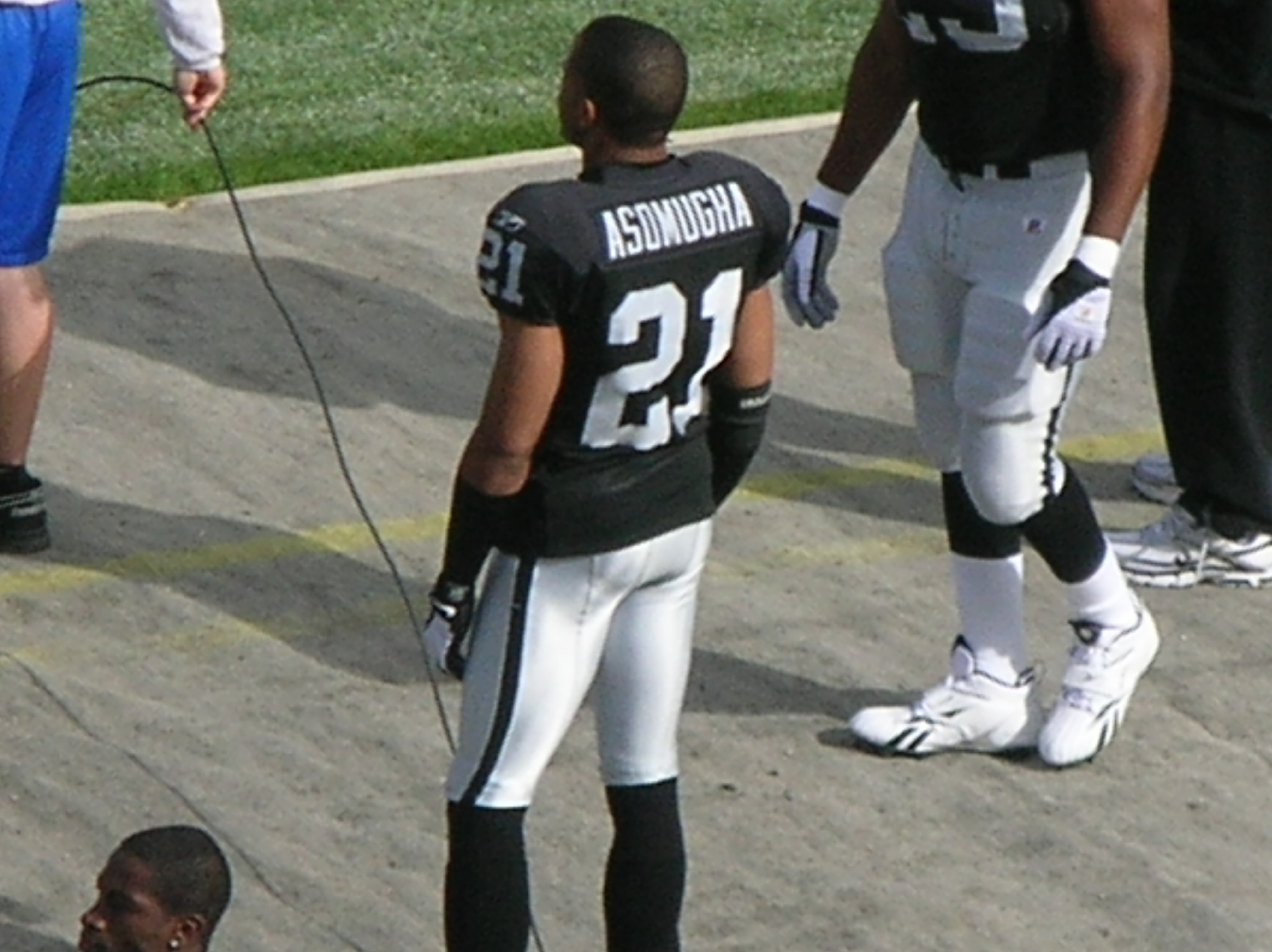 Oakland Raiders cornerback Nnamdi Asomugha on the sidelines at a home game against the Atlanta Falcons. The Falcons won 24-0.